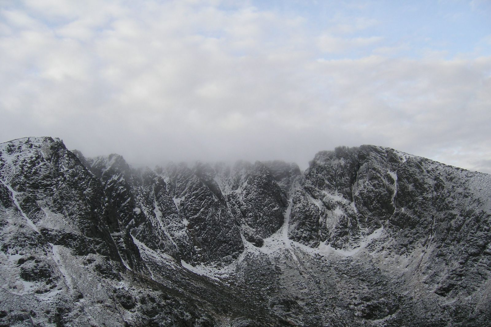 Lochnagar See where this picture was taken. [?]